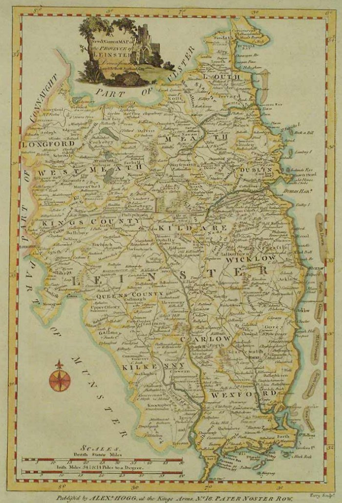 The province of Leinster, Ireland, as done in 1784 by Alexander Hogg, including slightly different county boundaries from today in a few places. Larger version.